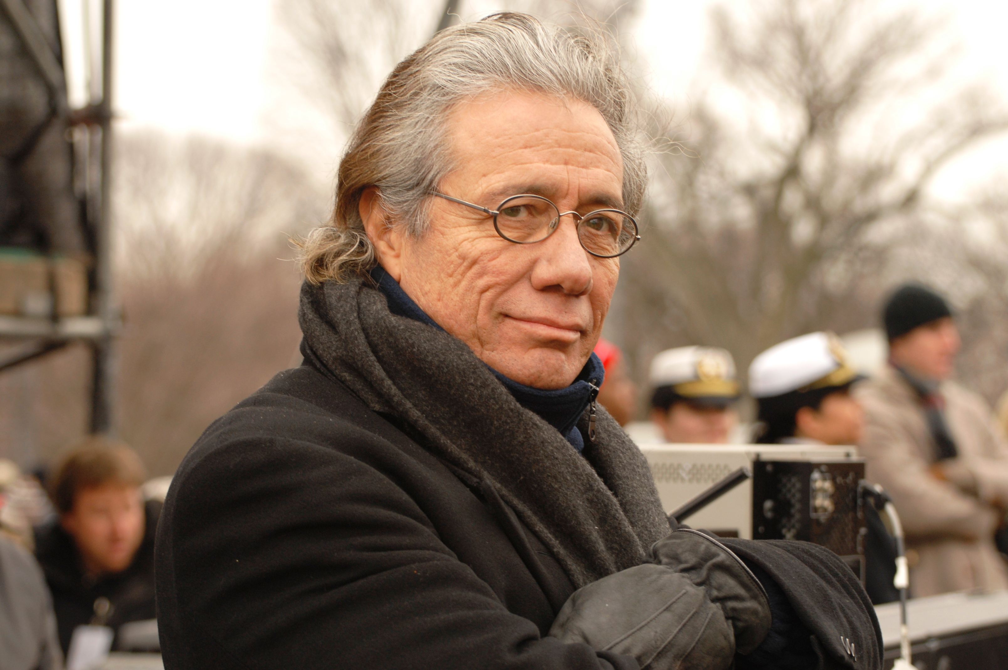 Edward James Olmos in Washington, D.C., Jan. 18, 2009, during the inaugural opening ceremonies.